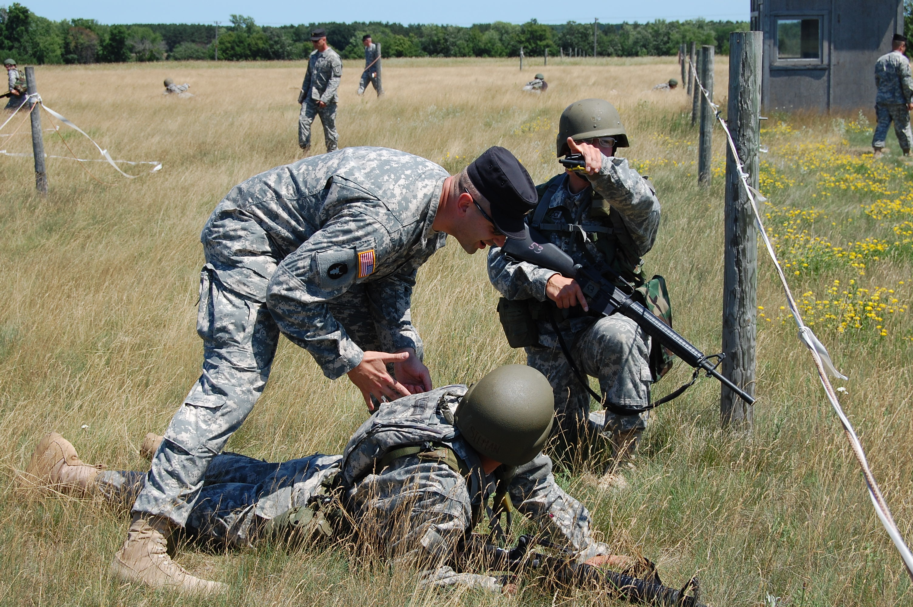 Instructor gives an Officer Candidate tactical advice during a training exercise at Camp Ripley, Minn.